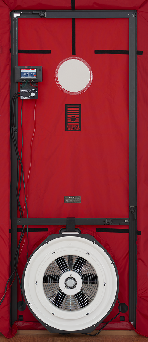 Full setup of a single fan blower door system